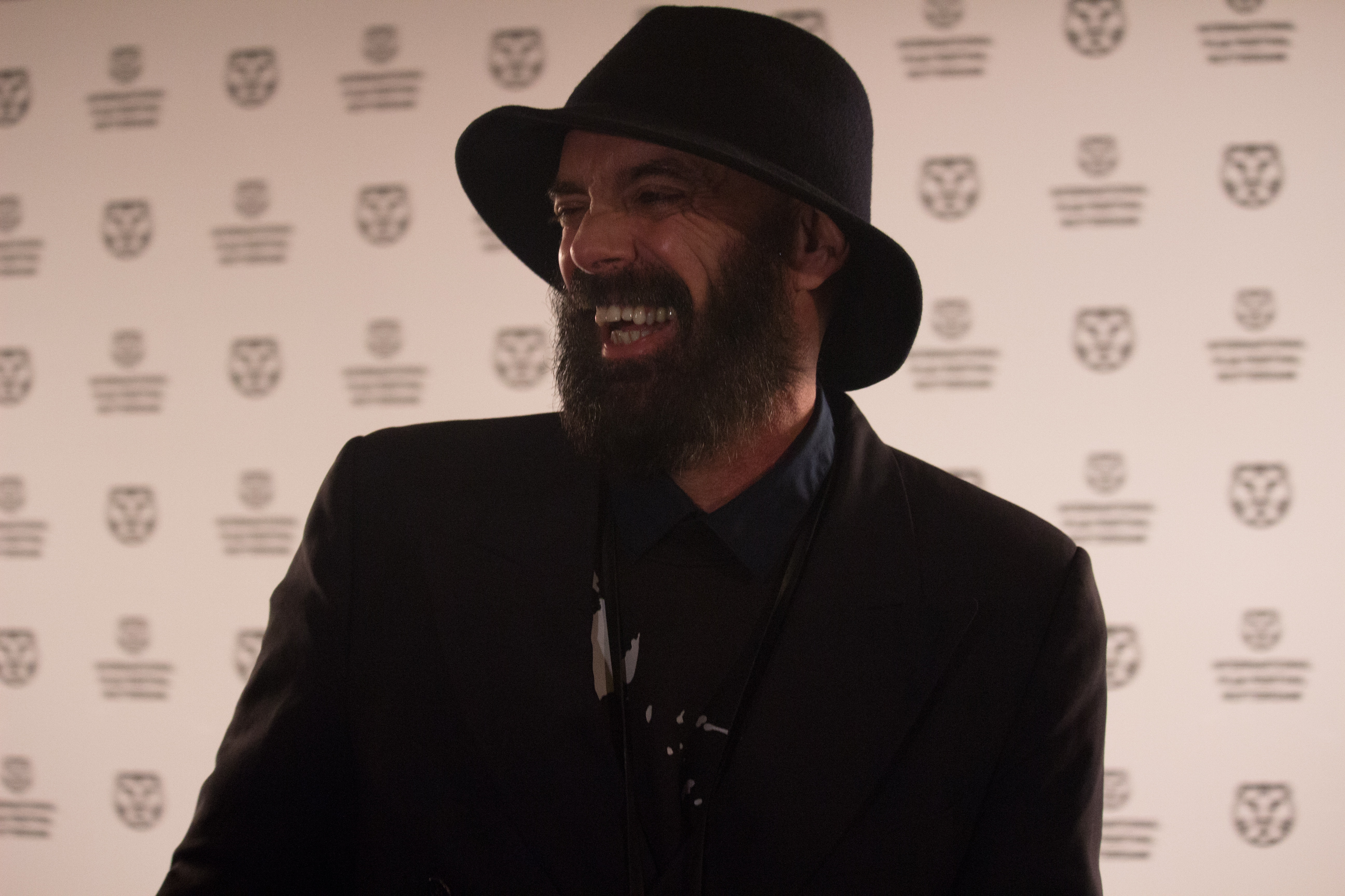 Ted Langebach at the opening event of the IFFR